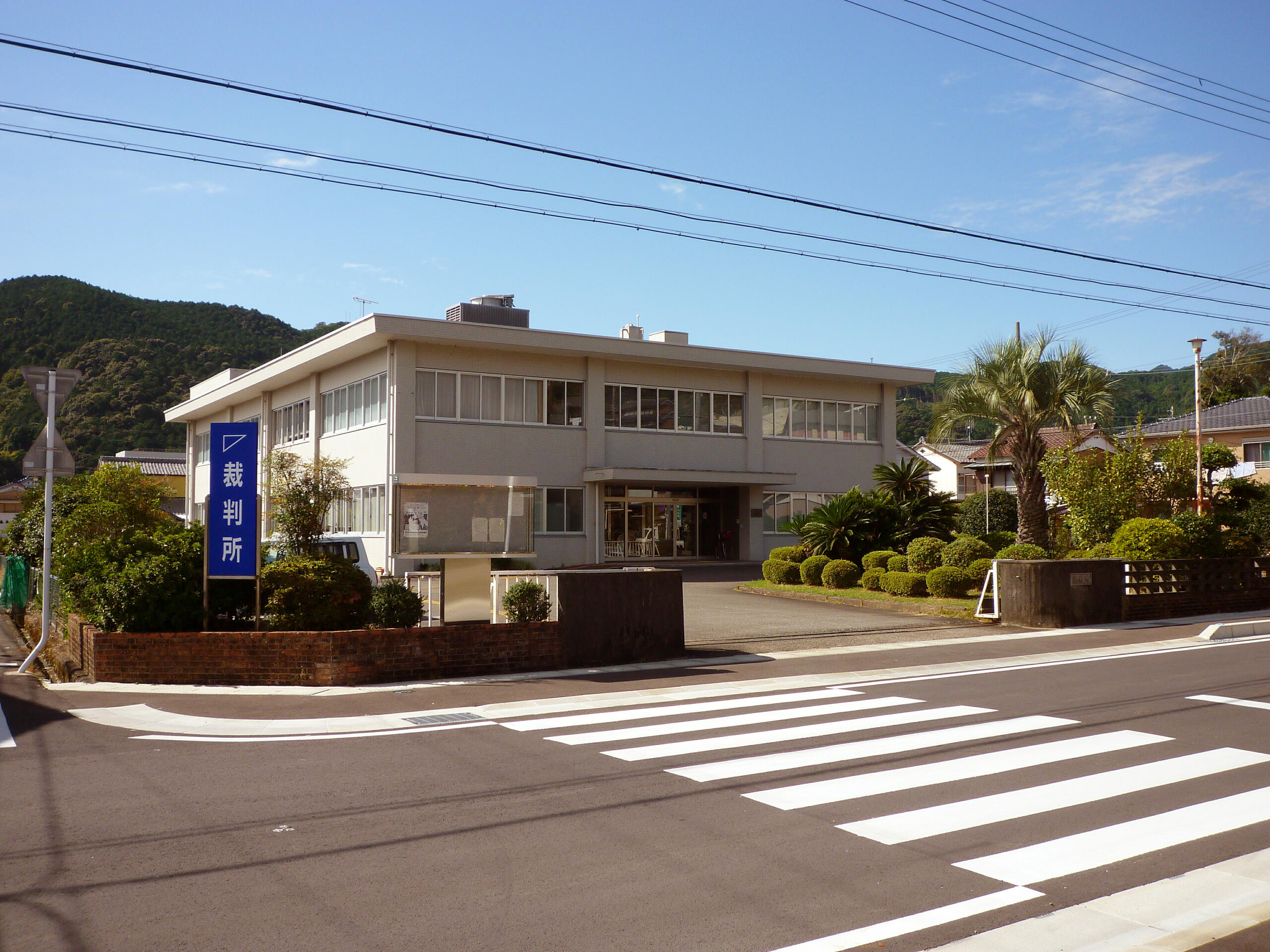 The "Tsu District Court Kumano Branch" in Kumano, Mie, Japan.